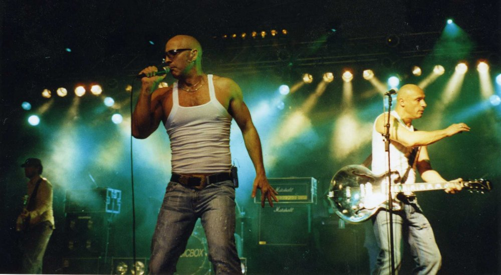 Right Said Fred's Richard and Fred Live on tour in Germany.